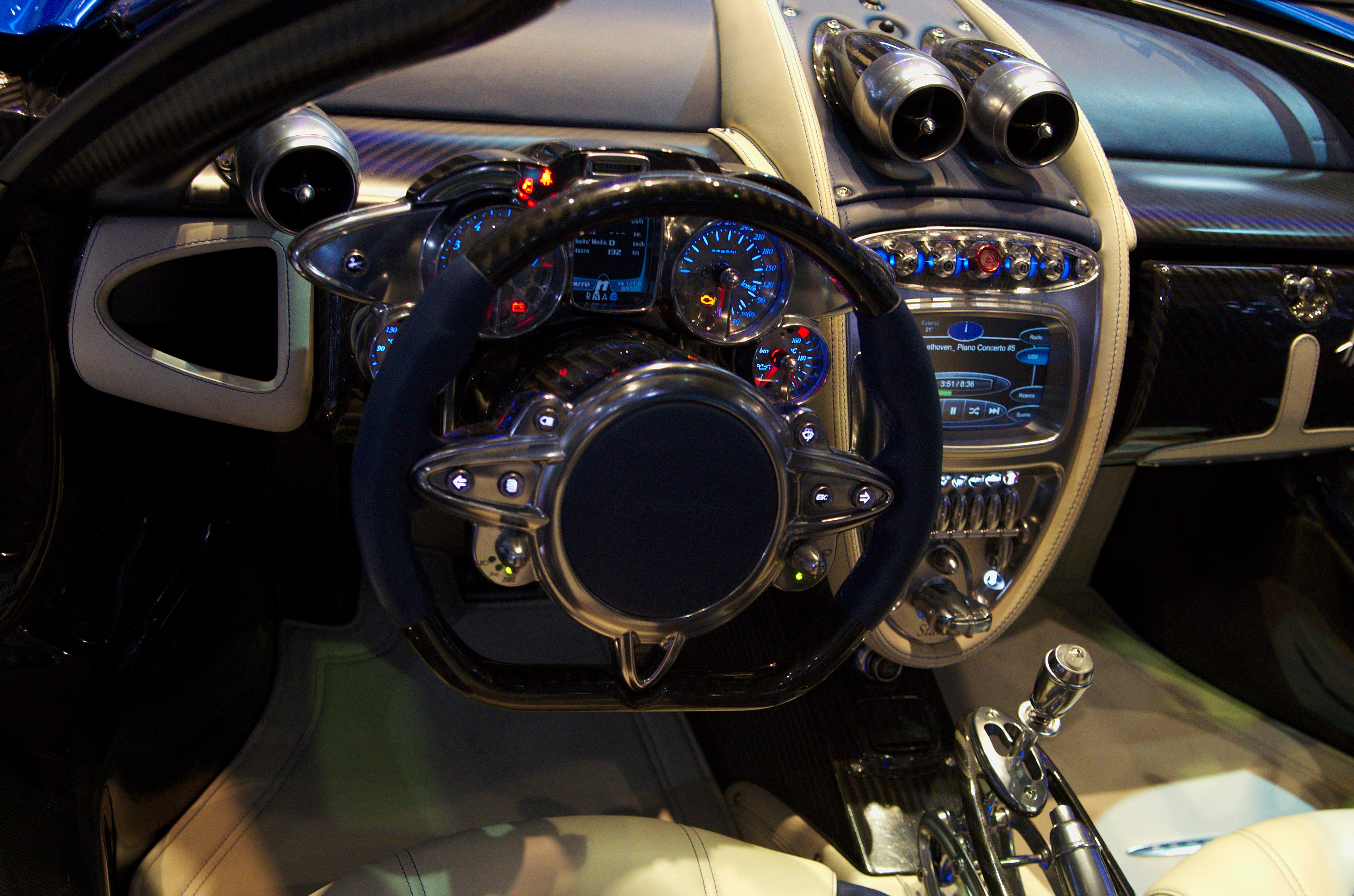 Geneva MotorShow 2013 - Pagani Huayra steering wheel 2